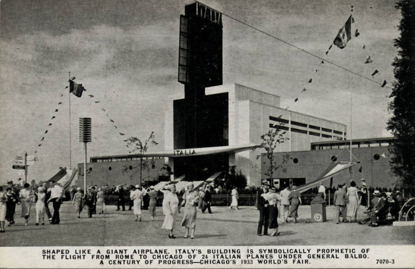 Shaped Like A Giant Airplane, Italys Building Is Symbolically Prophetic Of The Flight From Rome To Chicago Of 24 Planes Under General Balbo